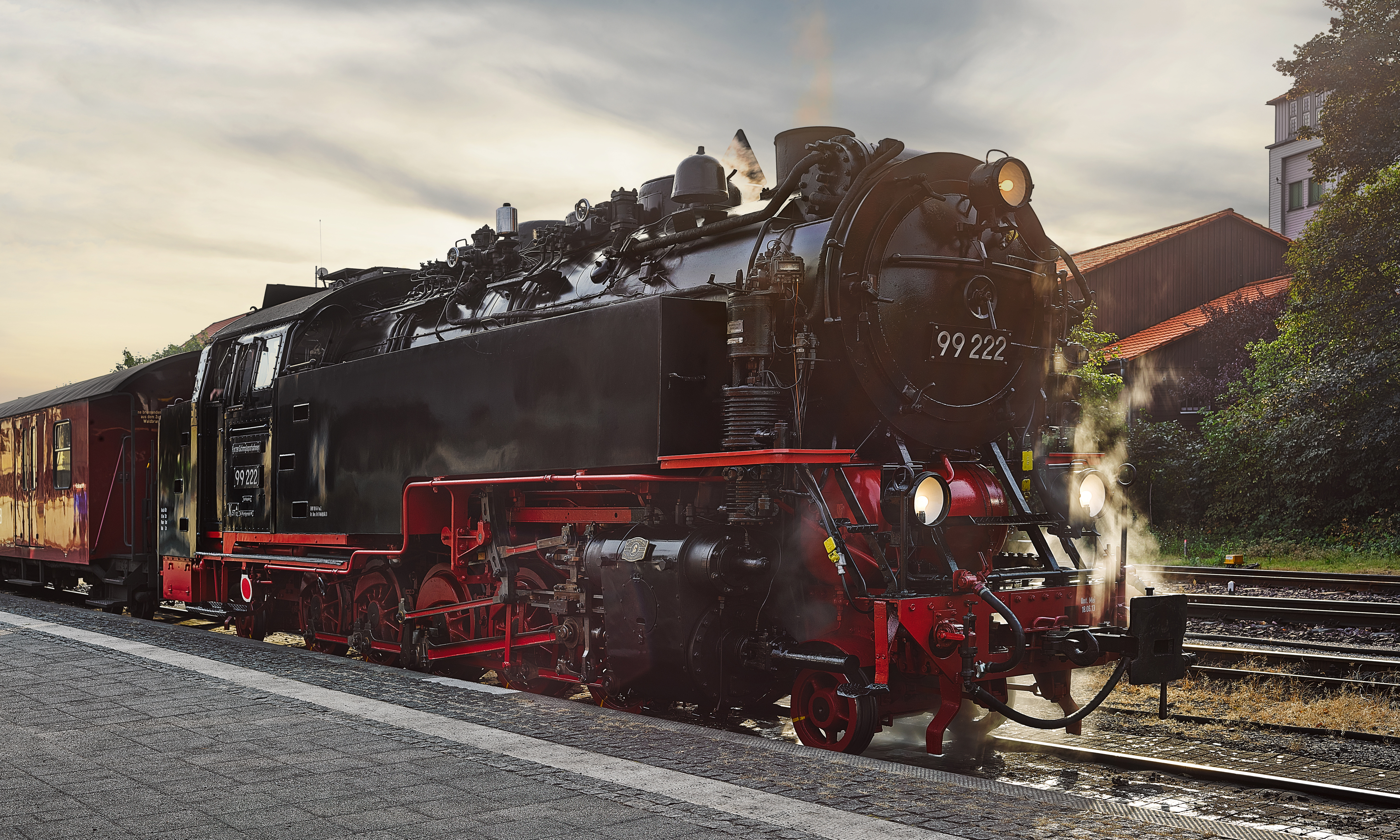 Lok_99_222_at Wernigerode, Germany